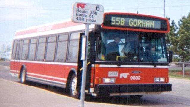 Newmarket Transit 1998 Orion VI on 55B Gorham route. (Now YRT route 56)